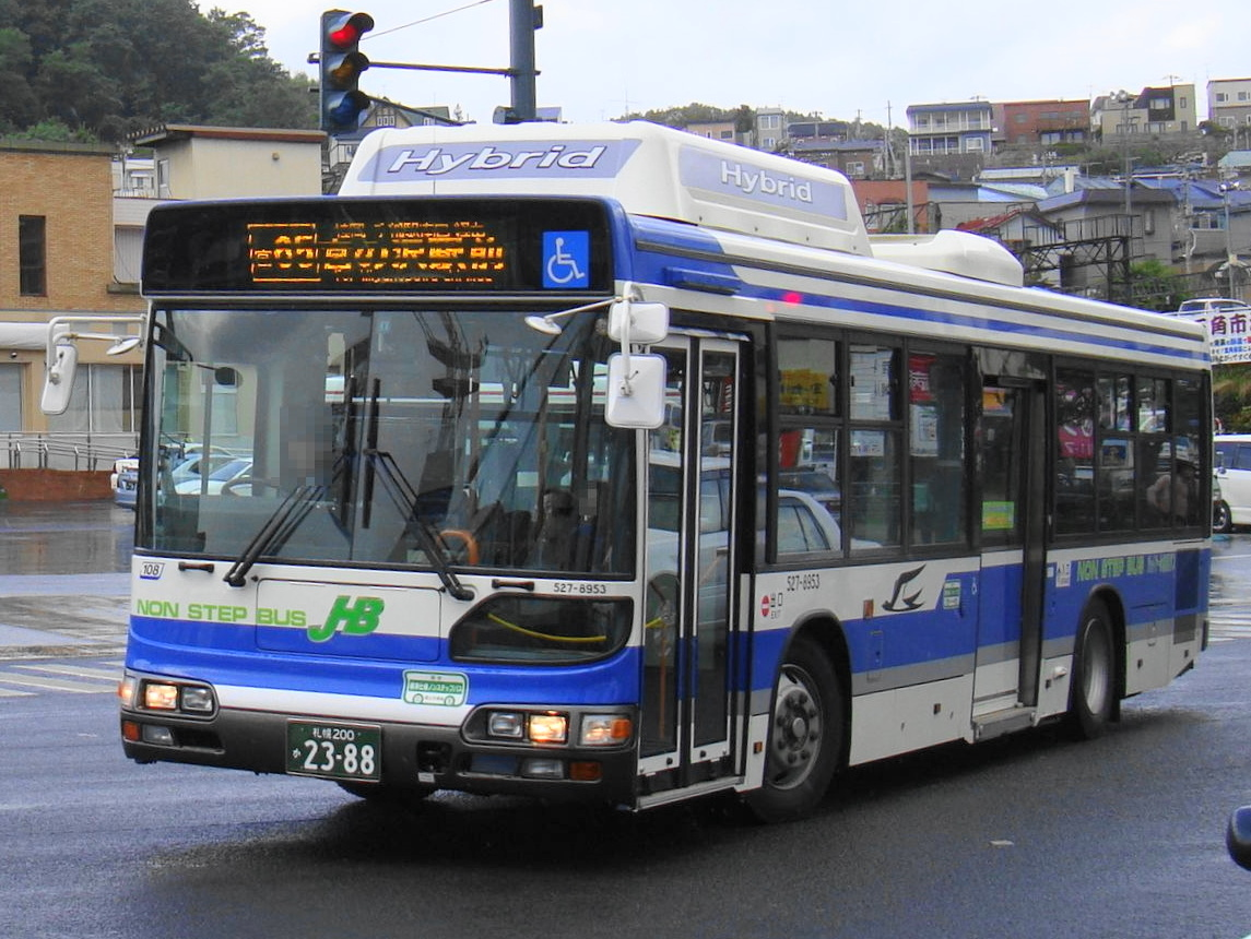 Otaru Station to Miyanosawa Station